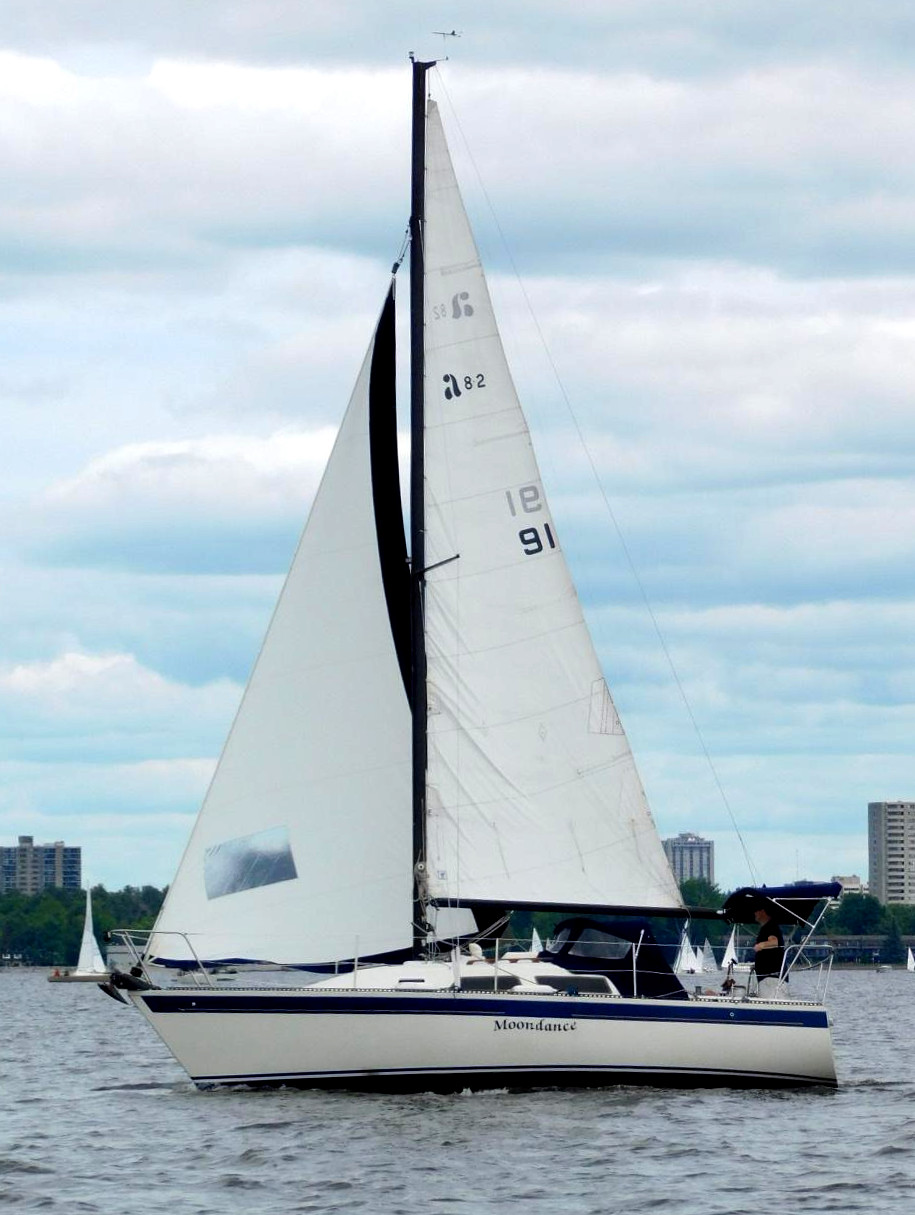 An Aloha 27 sailboat named Moondance.